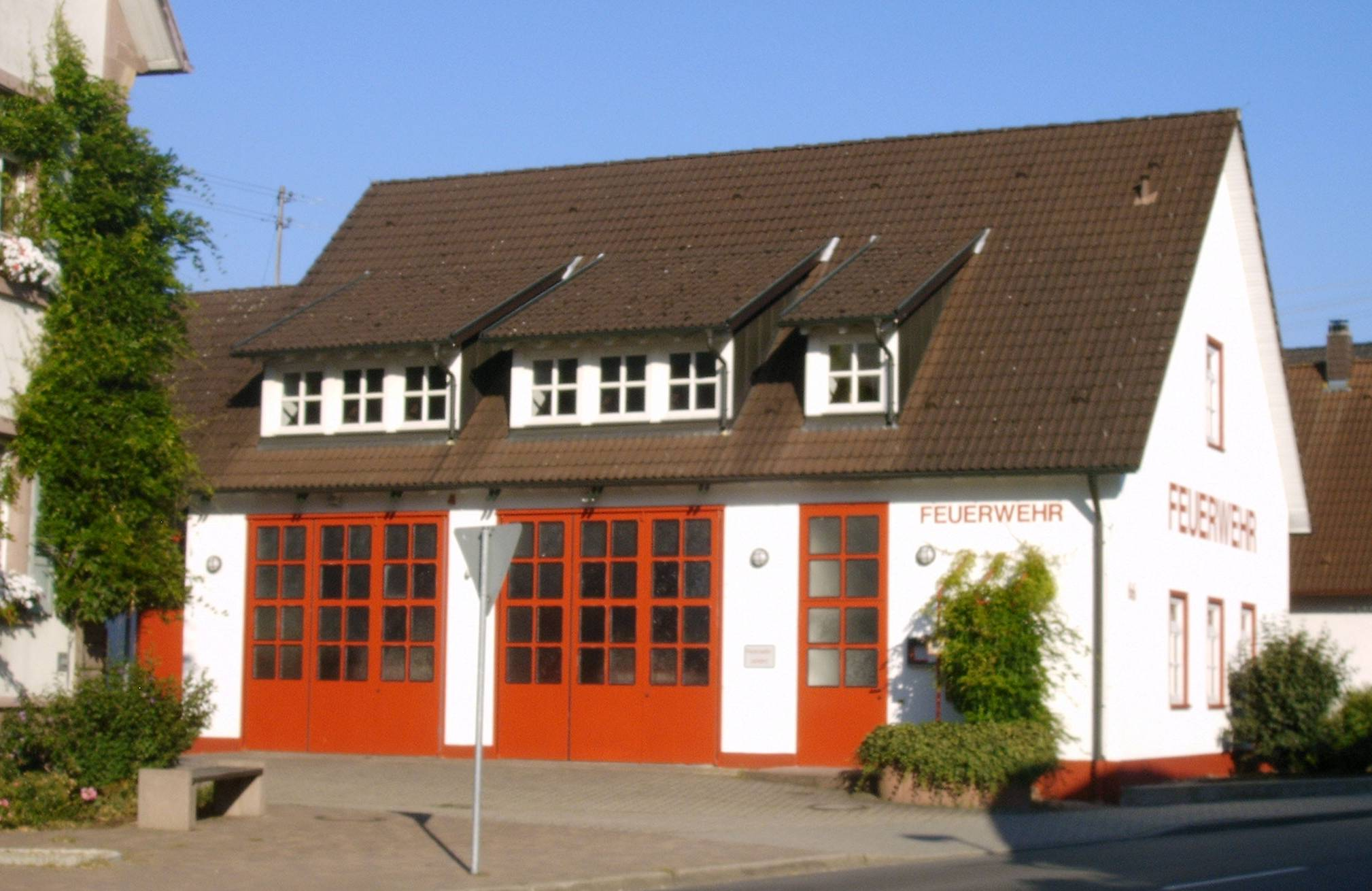 Unmanned station (fire brigade) in Ottersdorf, part of Rastatt, Germany